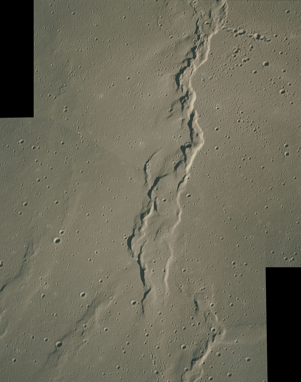 Mosaic of two Hasselblad camera frames showing part of Dorsa Whiston, Oceanus Procellarum, on the moon.